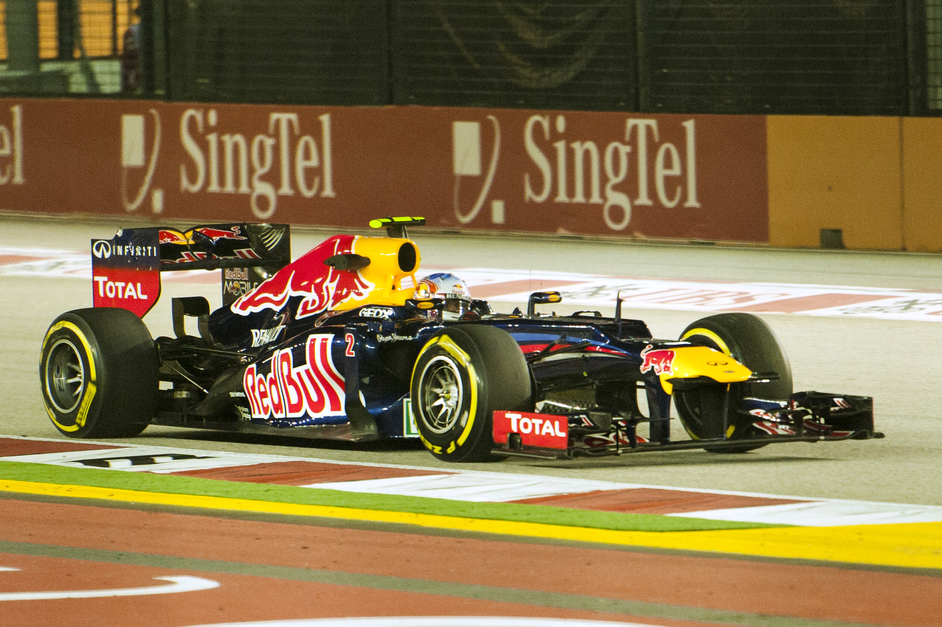 Webber in Friday. Non traditional helmet.